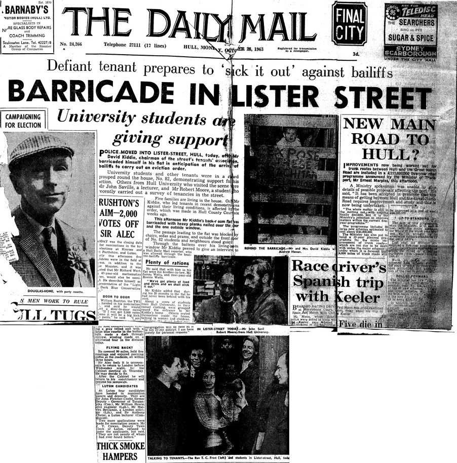 The Hull Daily Mail gave front-page coverage to the Lister Street tenants' rent strike in 1963. The strike was openly supported by both John Saville (pictured) and Hull students.